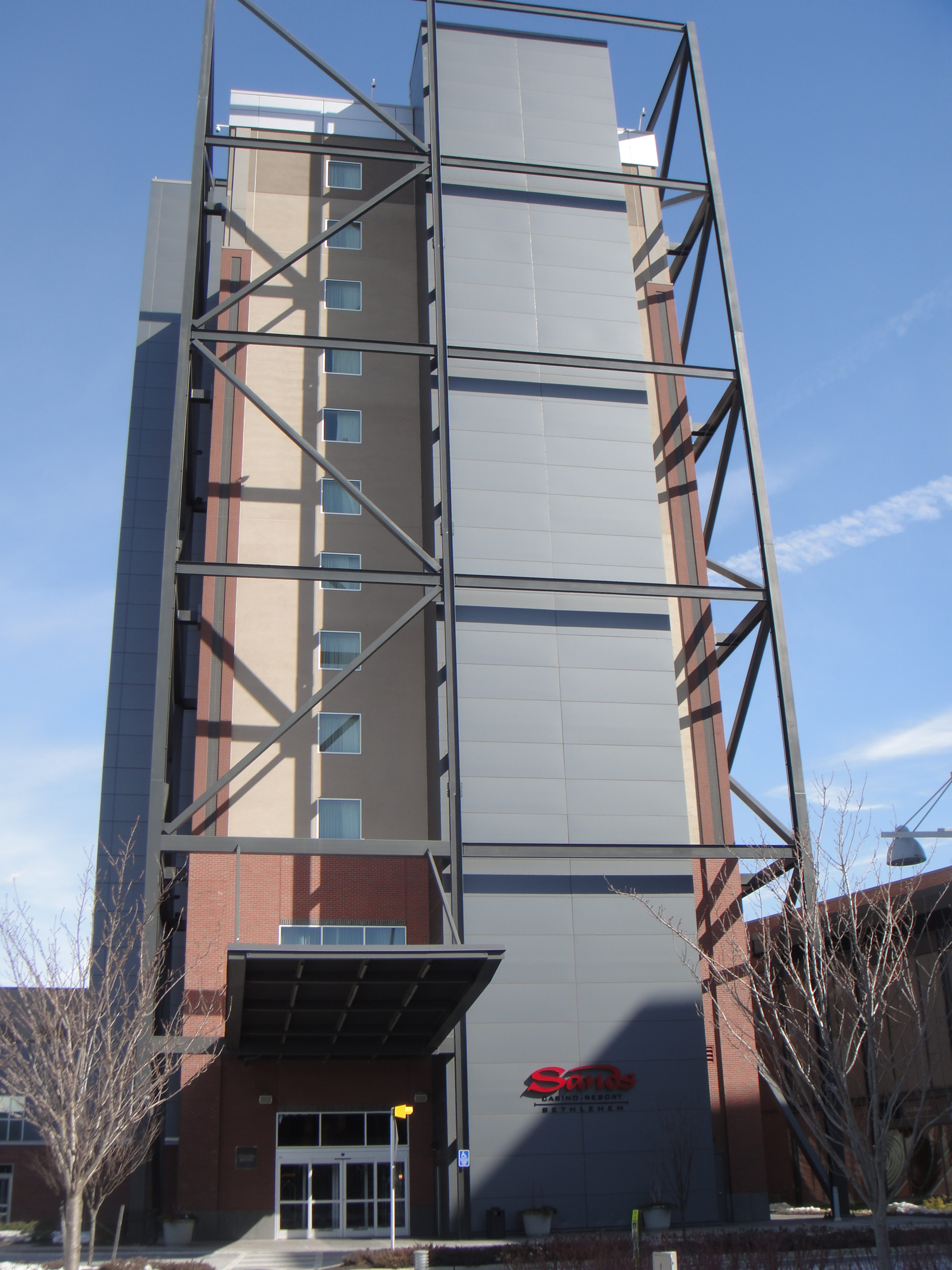 The Sands Casino Resort building.